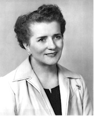 From Biographical Directory of the United States Congress [1]